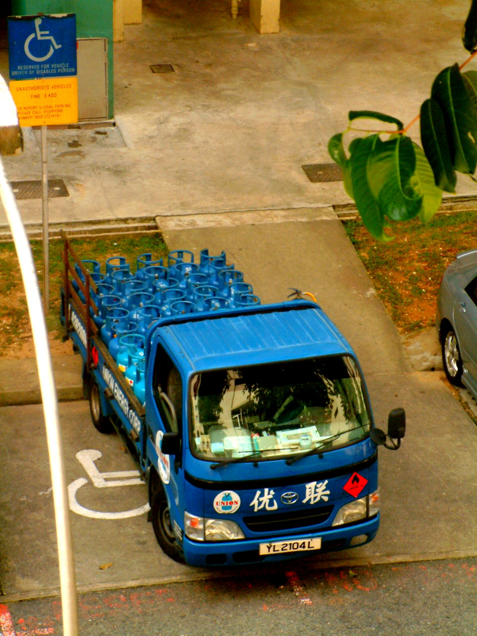 A delivery truck with Liquid Propane/Petroleum Gas being delivered to residential consumers. Photo taken by me.